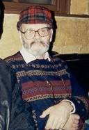 German gore director Andreas Schnaas (left) and the late Lucio Fulci (right) at the 1994 Eurofest, London, England.